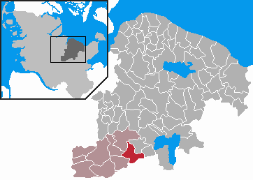 This map shows the area of the Gemeinde (municipality) Belau in the Kreis (district) Plön, Schleswig-Holstein, Germany.